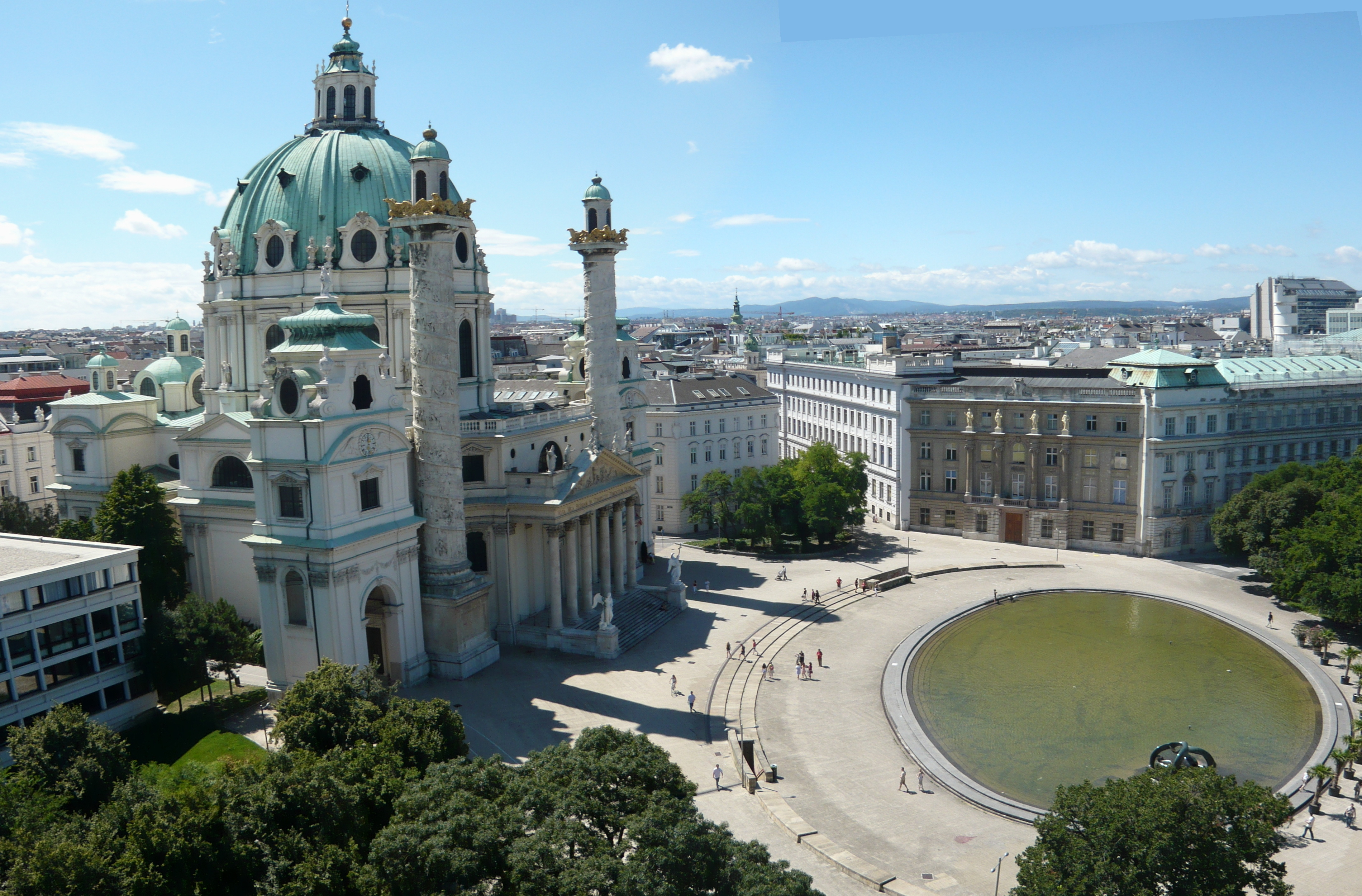 Austria, Vienna, St. Charles's Church